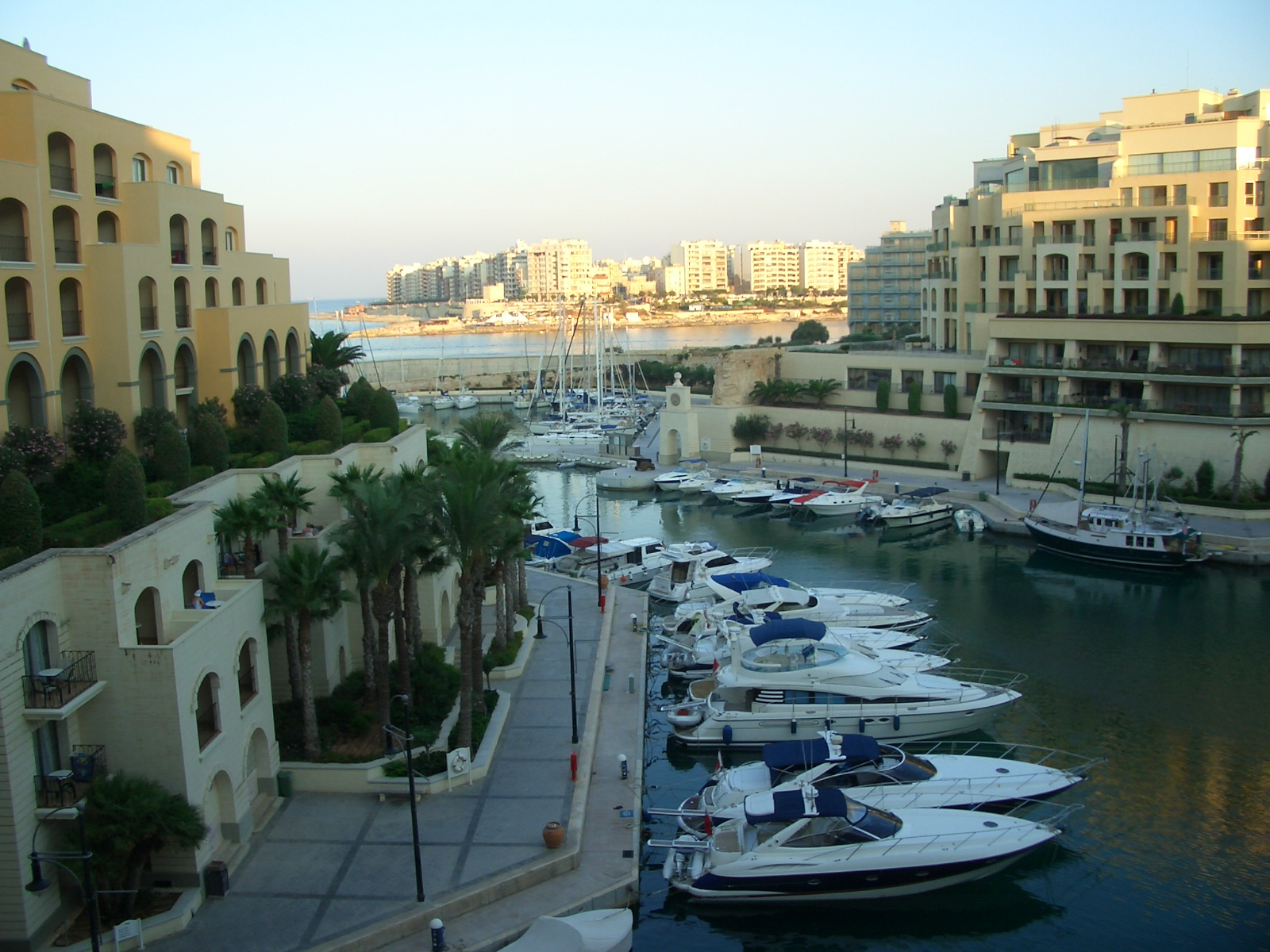 Marina at Portomaso, Malta.